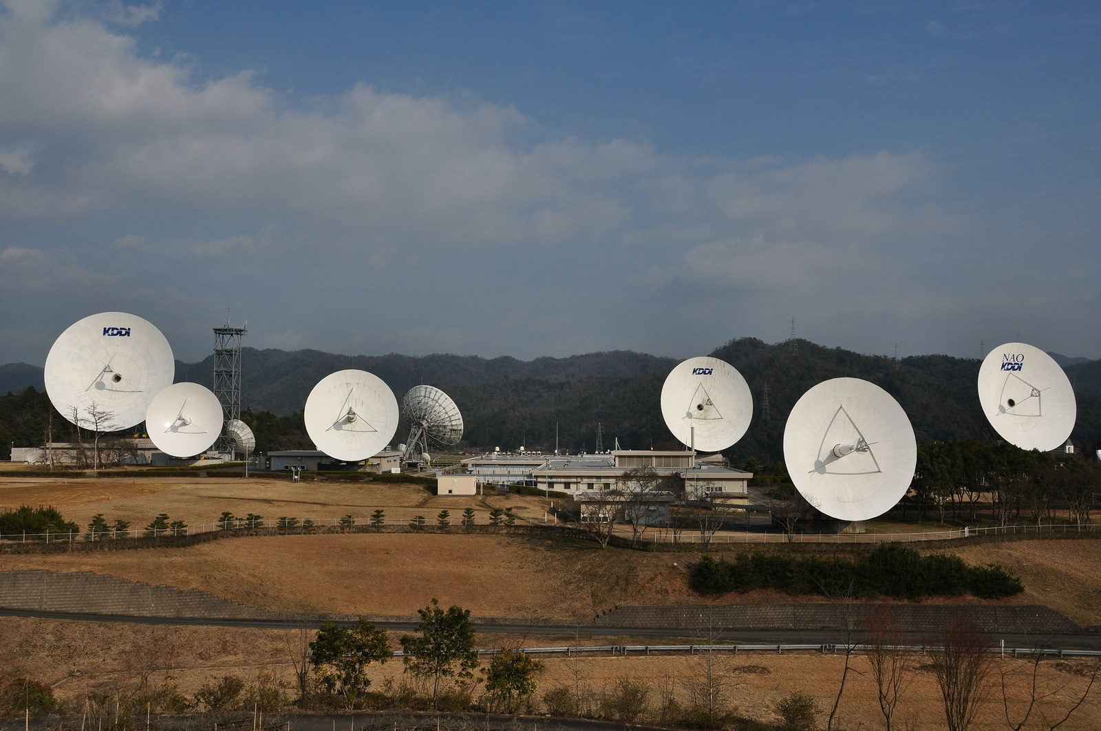 Yamaguchi Satellite Earth Station, KDDI Corporation